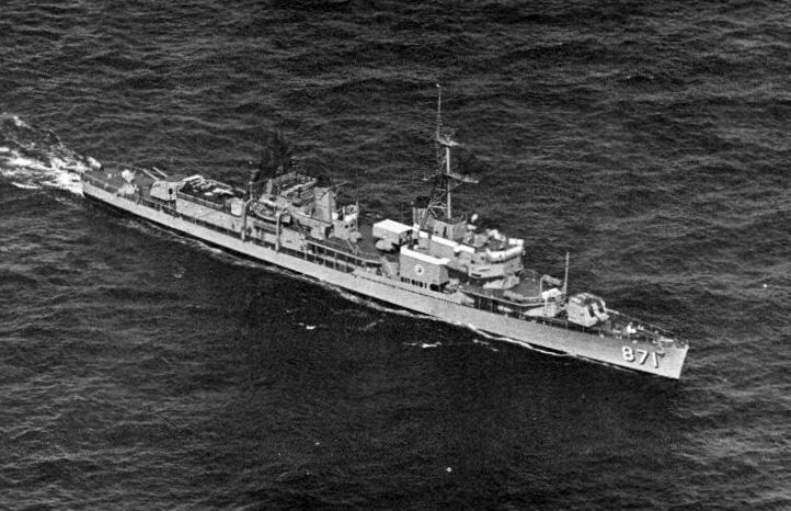 The U.S. Navy Gearing-class destroyer USS Damato (DD-871) during the "UNITAS IX" excerise off South America, in 1968.